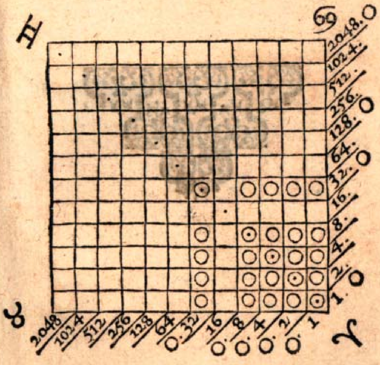 Example of finding the square root of 2209 using Napier's method for finding square roots provided in Rabdology on page 153